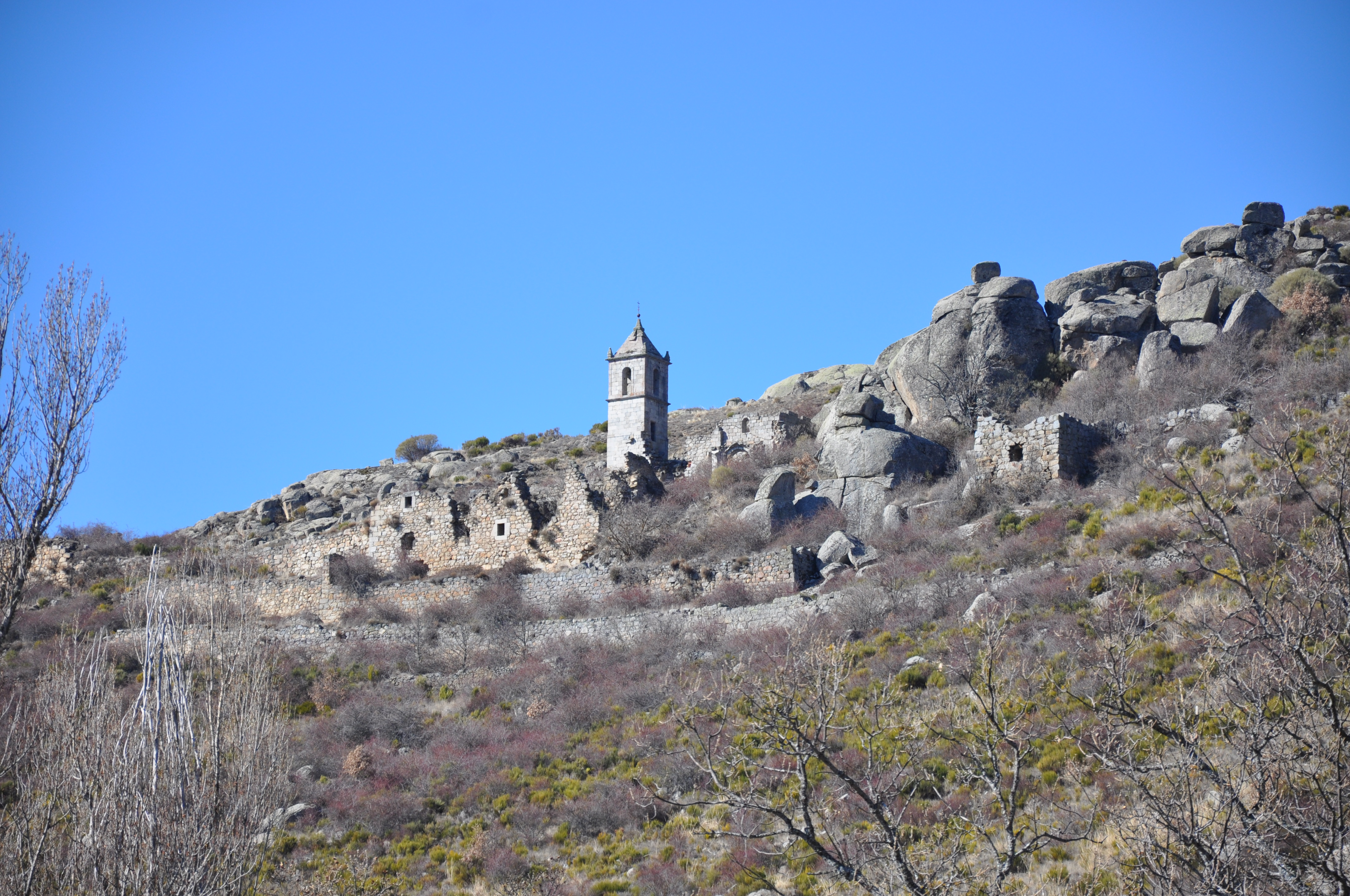 Ruins of the Augustinian Monastery of Nuestra Señora del Risco, Amavida, Ávila, Spain